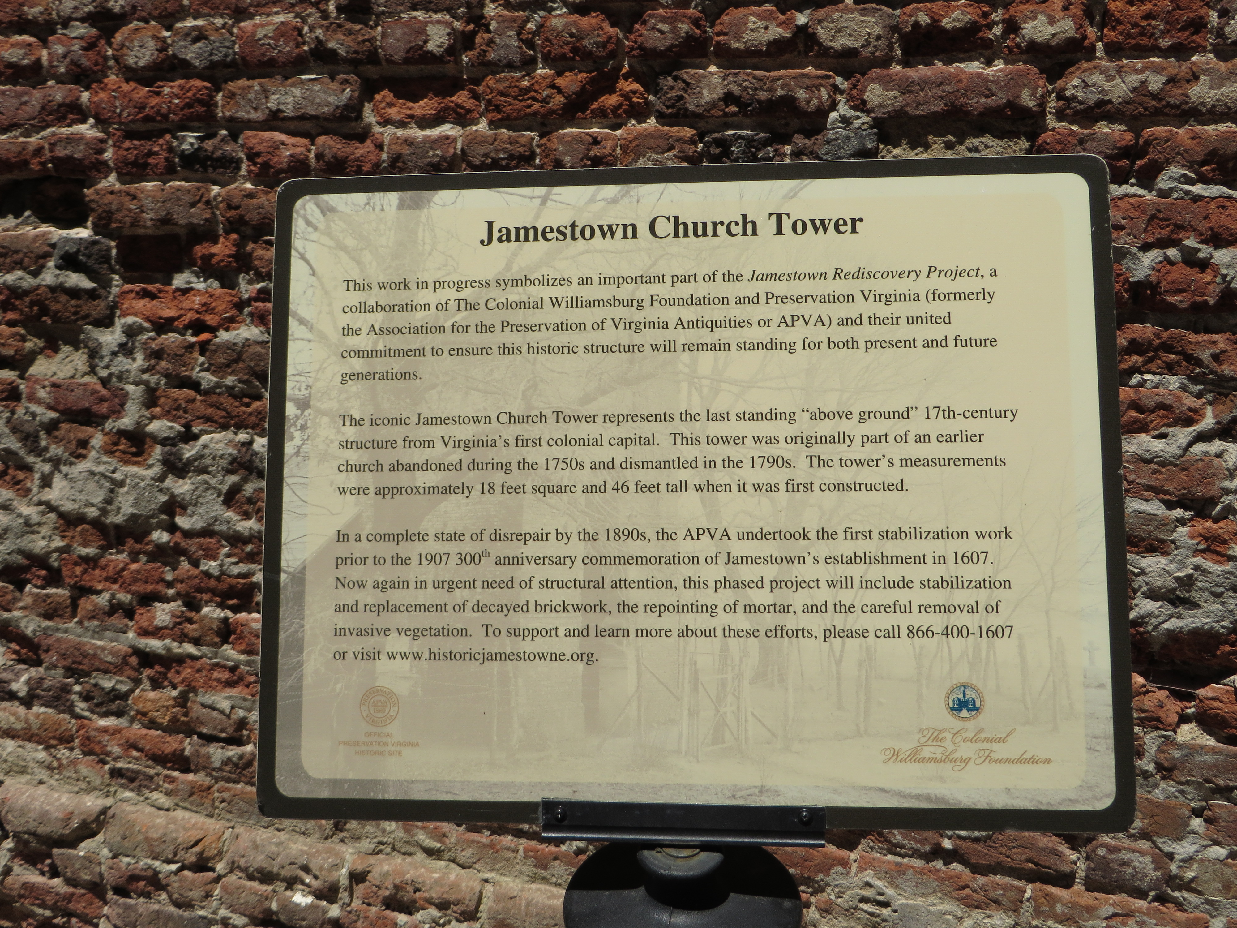 Jamestown Church, partially built in 1639 in Jamestown, Virginia, is one of the oldest surviving buildings built by Europeans in the original thirteen colonies that became the United States. It is part of Jamestown National Historic Site, and is owned by the Preservation Virginia (formerly known as the Association for the Preservation of Virginia Antiquities). The first church on the site was constructed in 1617. It was in this church where the first Representative Legislative Assembly met, which convened there on July 30, 1619. Construction on the current church tower began in 1639 taking 4 years to complete. The rest of the original church was destroyed after abandonment in 1750 when a new church was built 3 miles away.